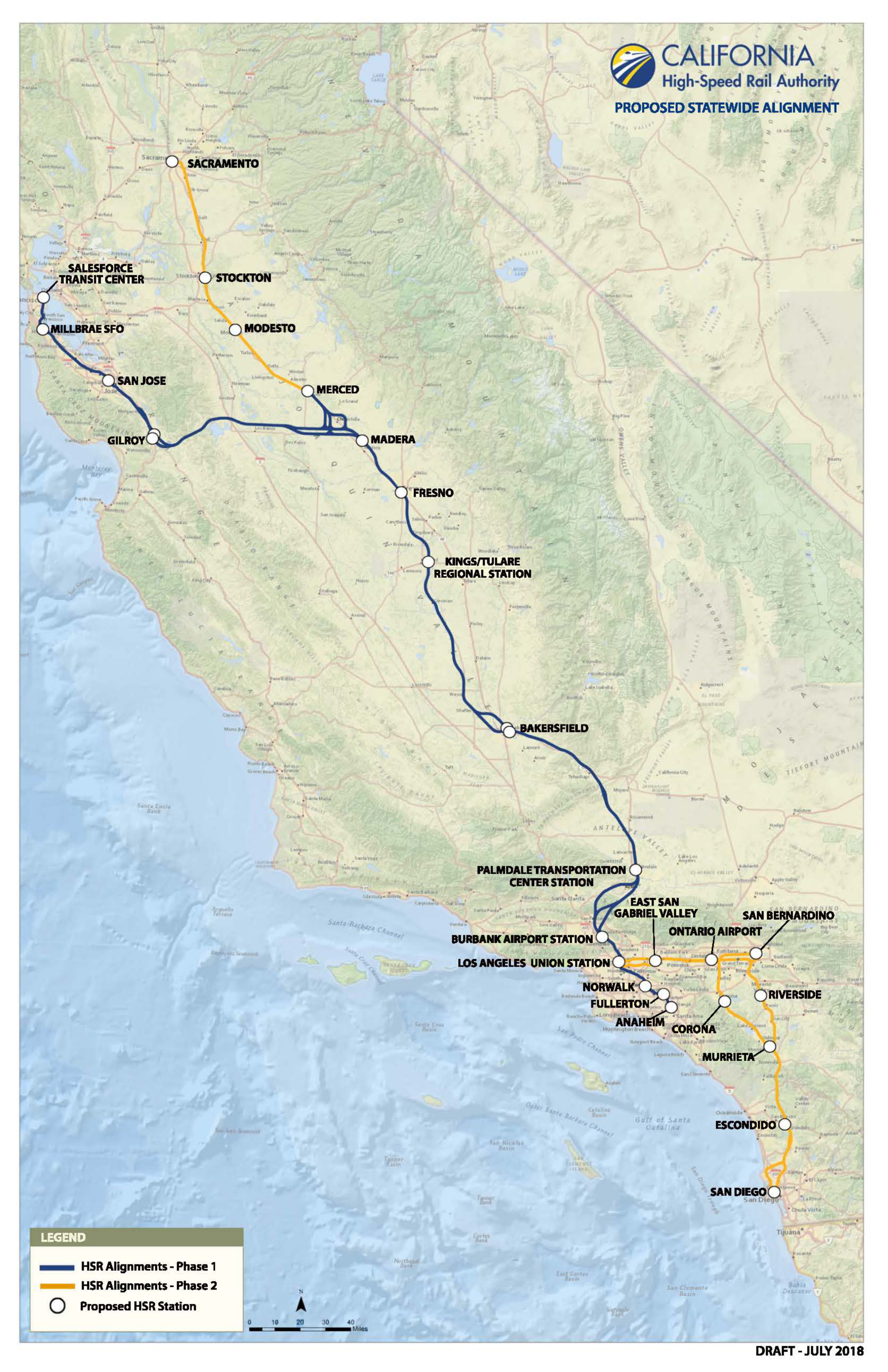 Update of File:Statewide_Topo_22X34_July_2014.jpg